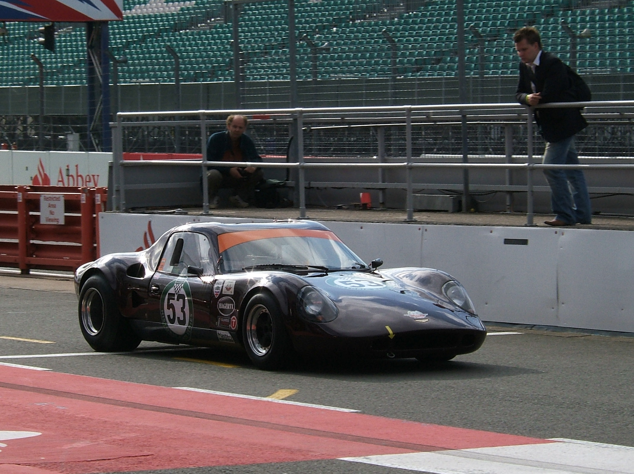 A Chevron B8 in the pitlane at Silverstone, during the Silverstone Classic race meeting, July 2007